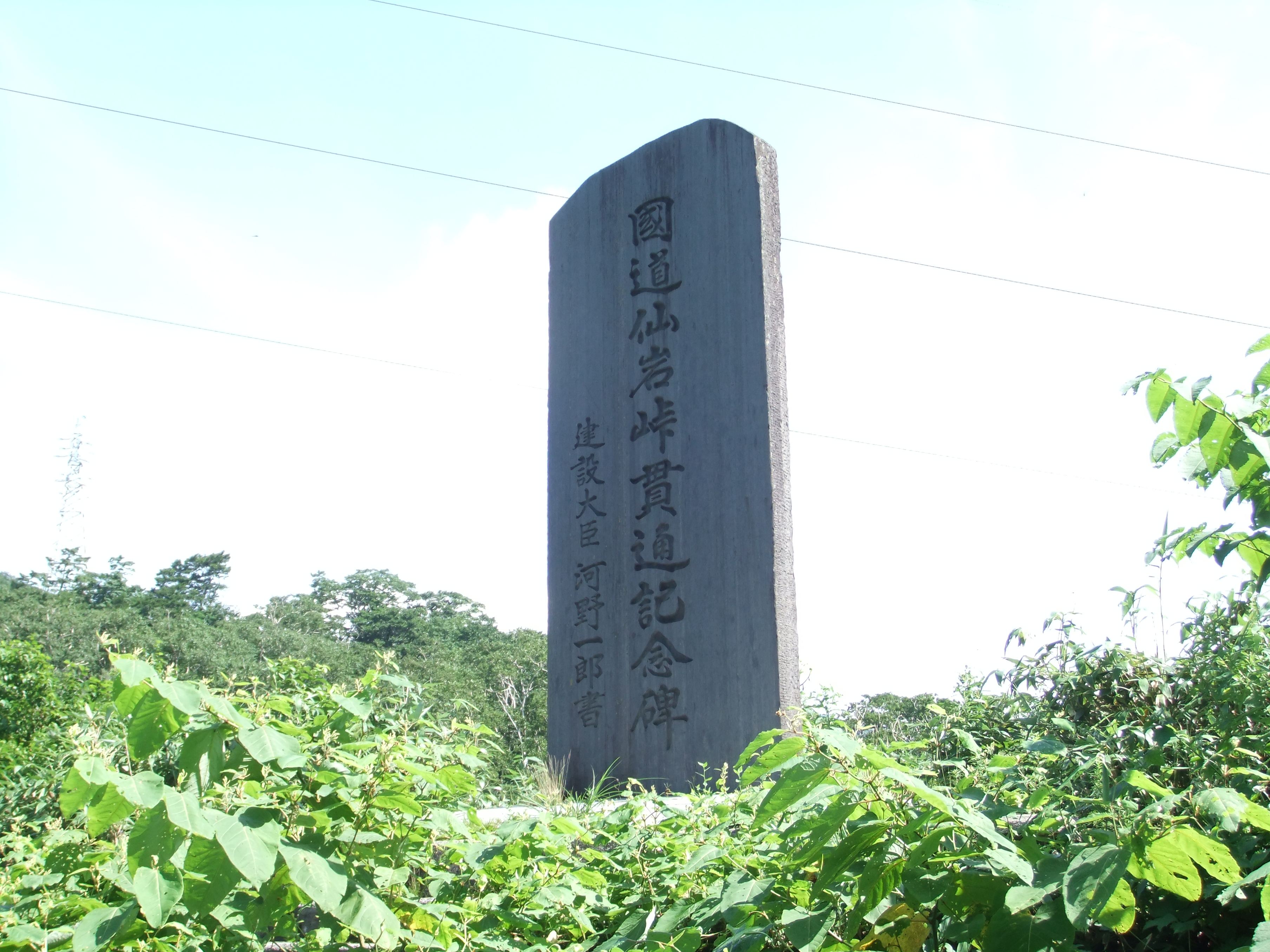 The monument of "National Route Sengan pass" in former route 46, Japan.